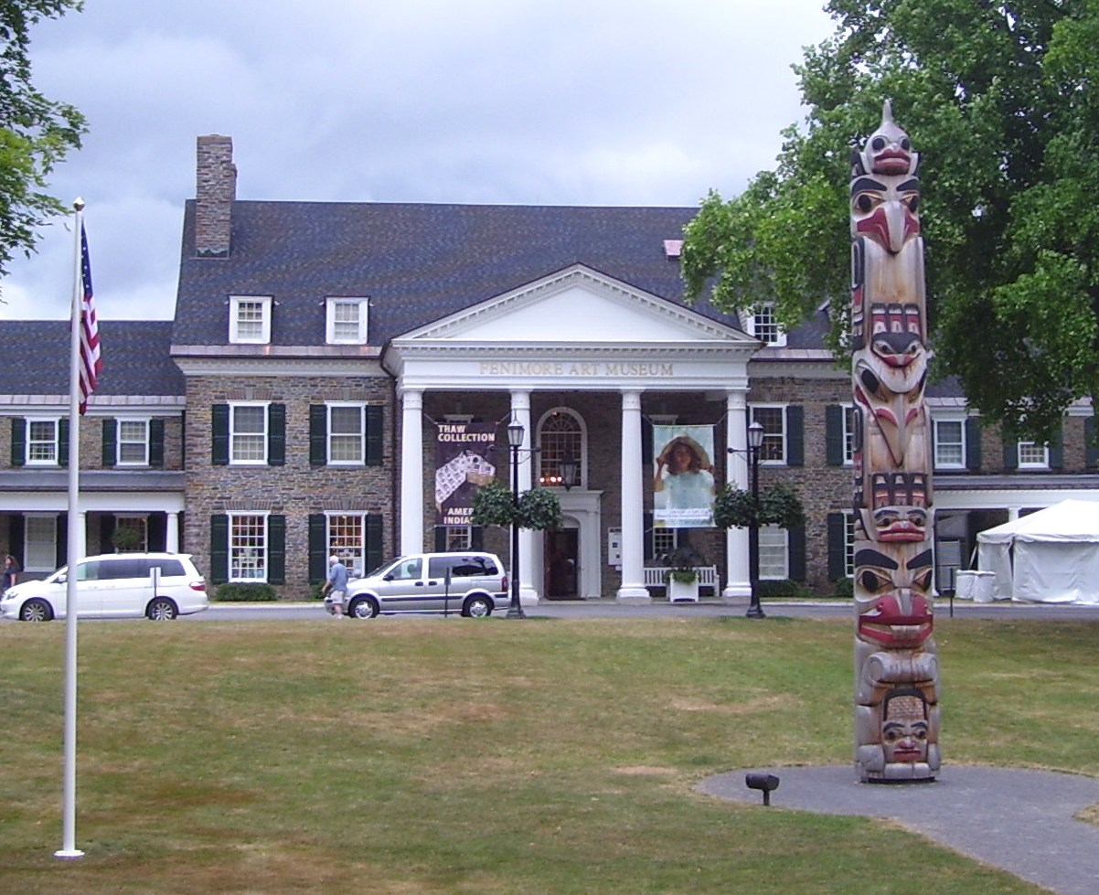 The Fenimore Art Museum, at 5798 NY Route 80 (also known as Lake Road), was built as enimore House in 1932 in the Neo-Georgian style, on the site of James Fenimore Cooper's 19th-century farmhouse. In 1944 it was donated by Stephen Carlton Clark to the New York State Historical Association to hold their collection and be their headquarters, which had previously been located in Ticonderoga, New York. The Association had been founded in 1899 in Lake George, New York as a non-profit organization with the goal of promoting knowledge about the early history of New York State.A separate library building was added to Fenimore House Museum in 1968, and a new wing in 1995 to house its collection of American Indian Art, which is one of the most extensive in the world. In 1999, the museum was renamed the Fenimore Art Museum. The Fenimore Art Museum building is a contributing property to the Cooperstown Historic District. (Sources: [1], [2])